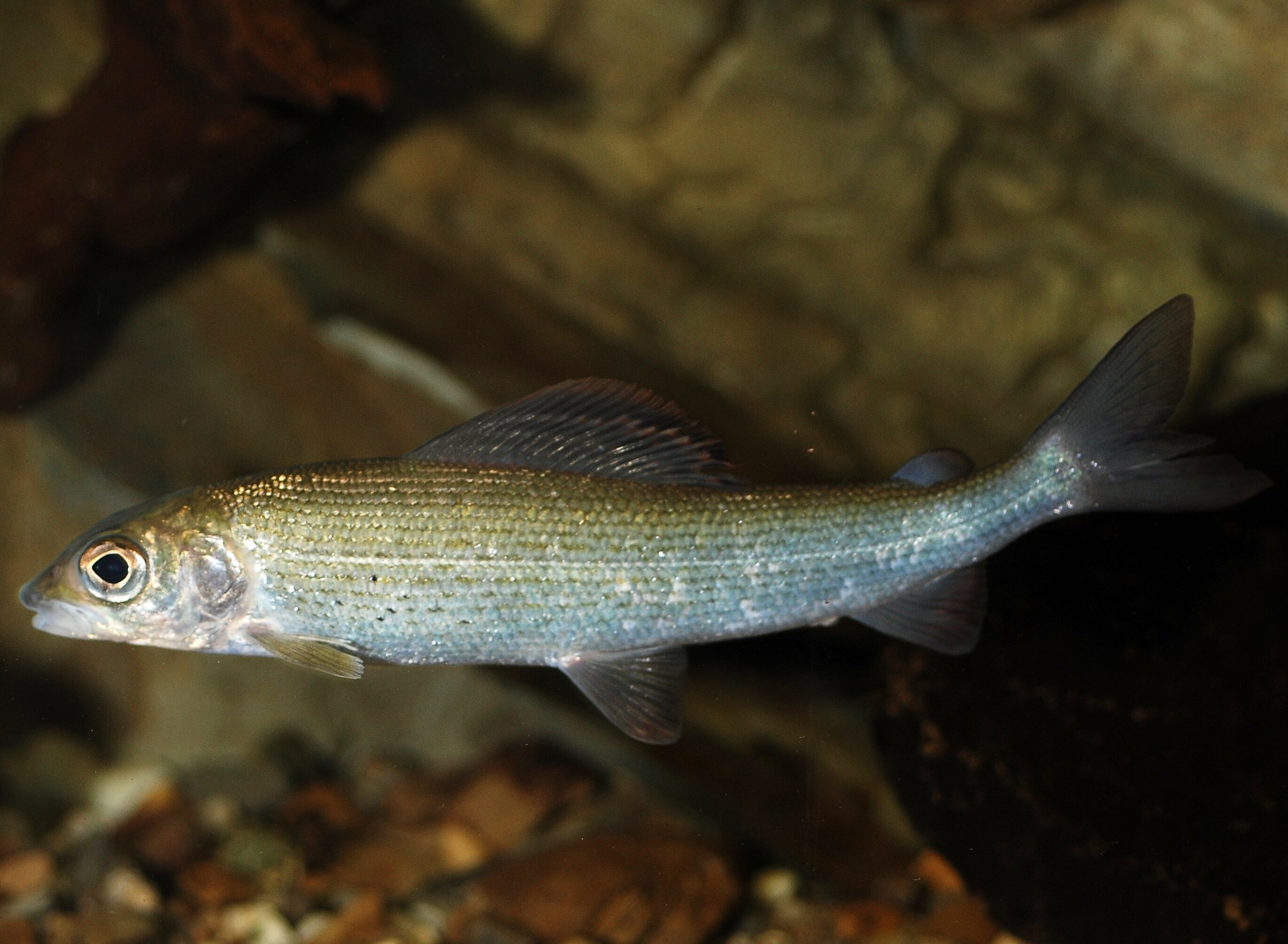 Grayling.